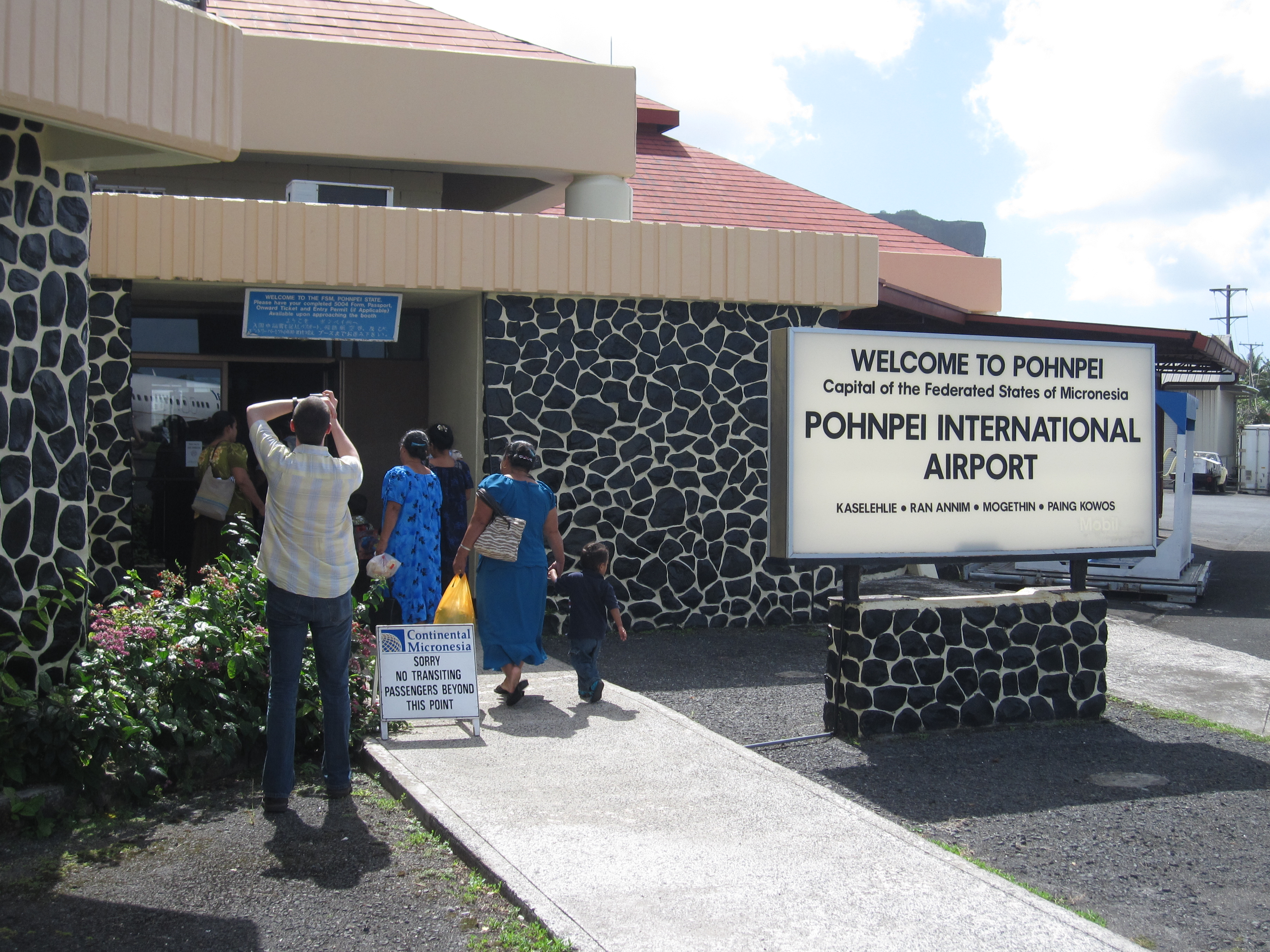 Pohnpei International Airport